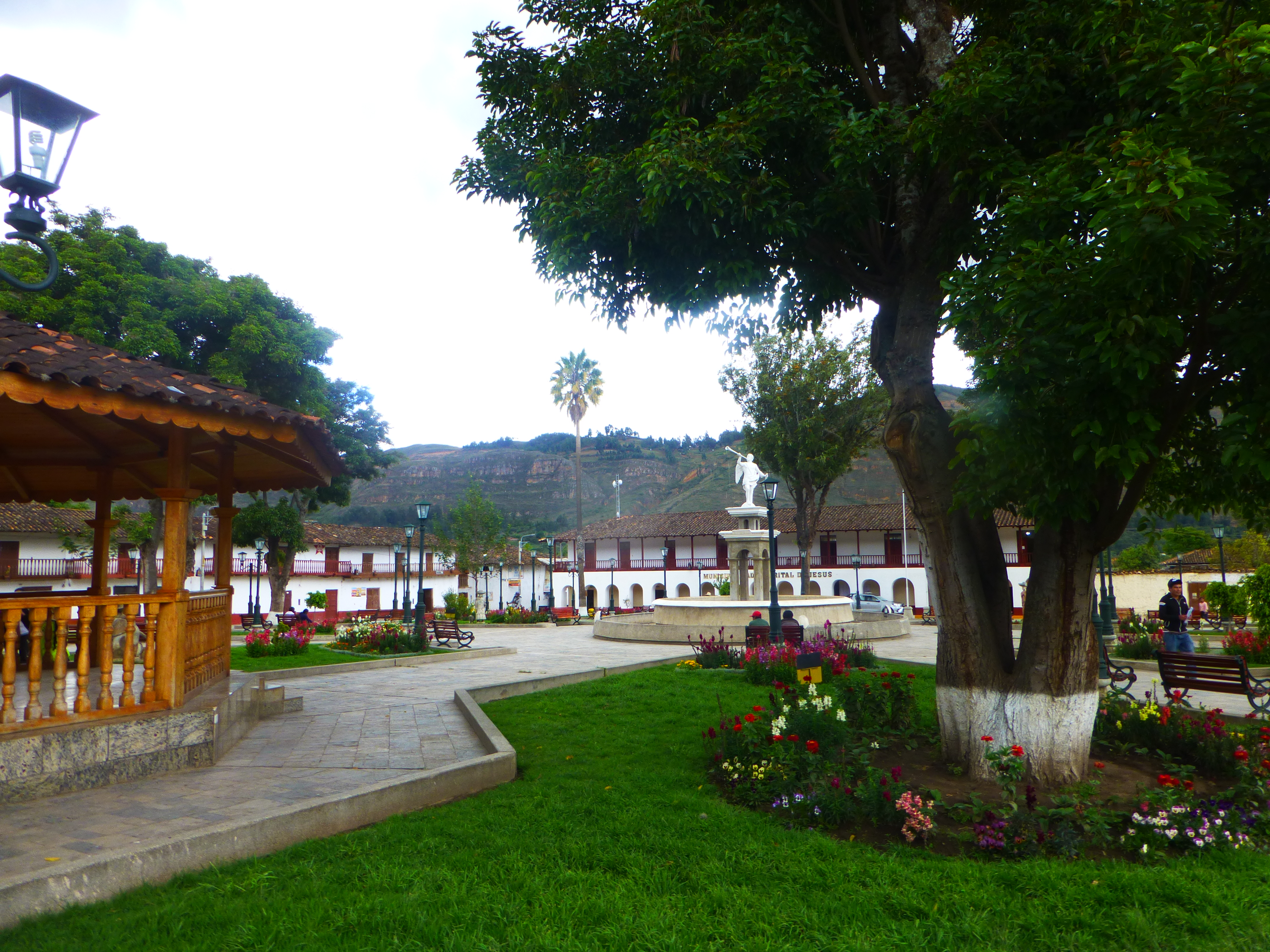 Jesus, Cajamarca, main square